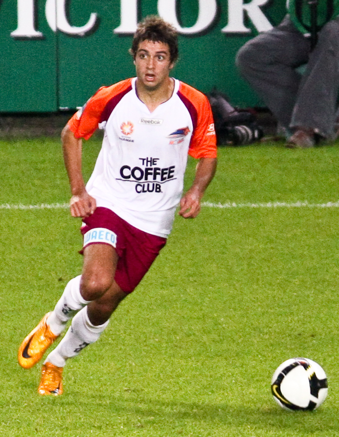 Michael Zullo playing for the Queensland Roar against Sydney FC.